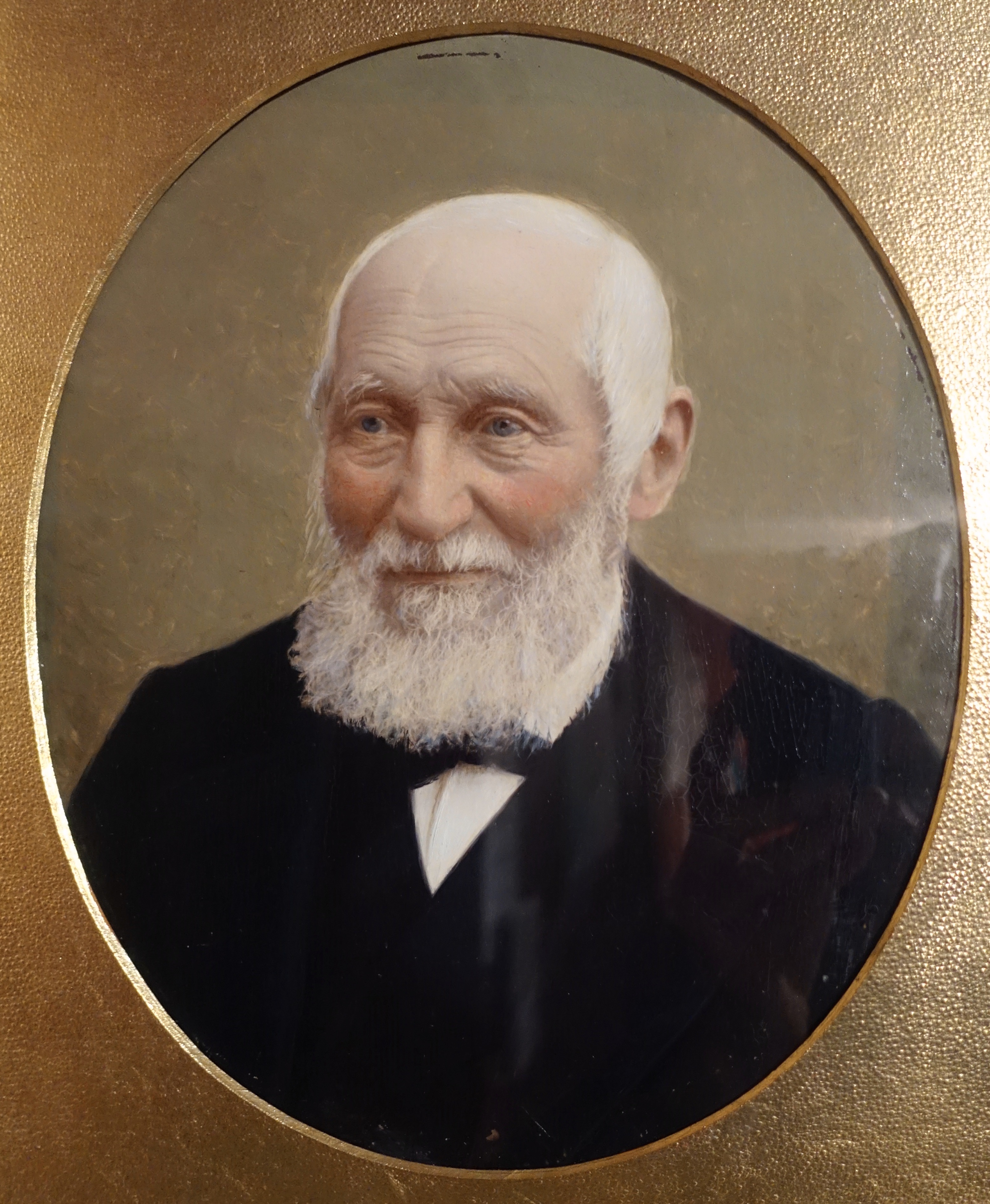 Hand-coloured portrait photograph and epitaph painted 1894 in commemoration of Svend Foyn (1809–1894), a Norwegian whaling and shipping magnate. Photo taken on January 21st, 2020 in the Svend Foyn exhibition at Slottsfjellsmuseet Museum in Tønsberg, Norway (the skewed perspective in some of the photos were adjusted to make the frame into a rectangle and corners with right angels.)